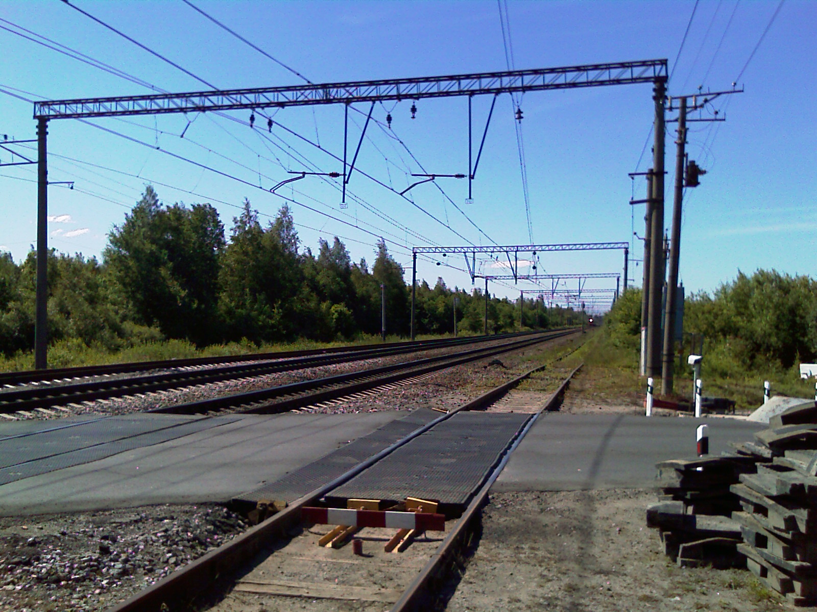 Peterburg-Vologda railway crosses Lagernoe shosse